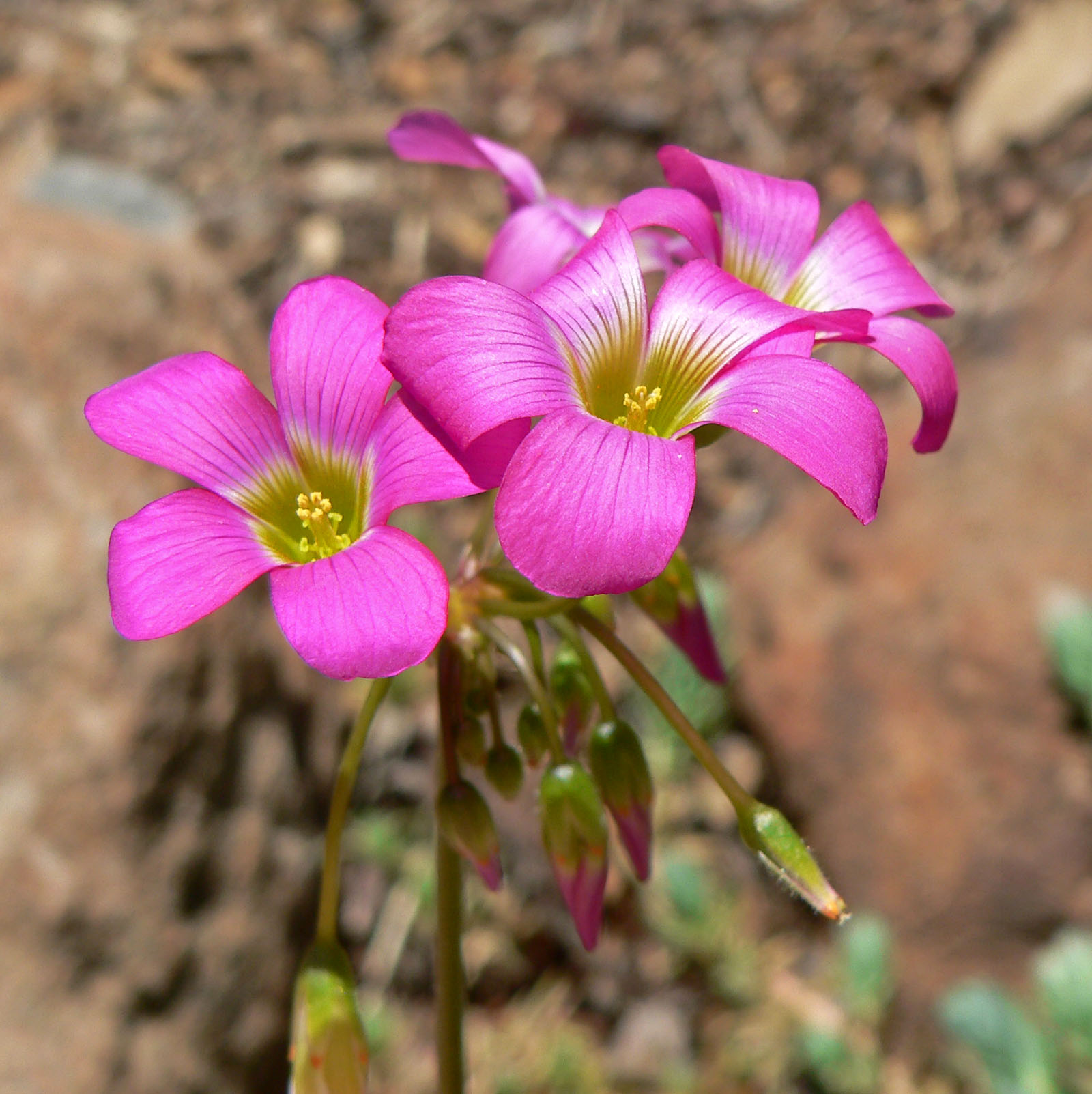 Oxalis magnifica at the University of California Botanical Garden, Berkeley, California